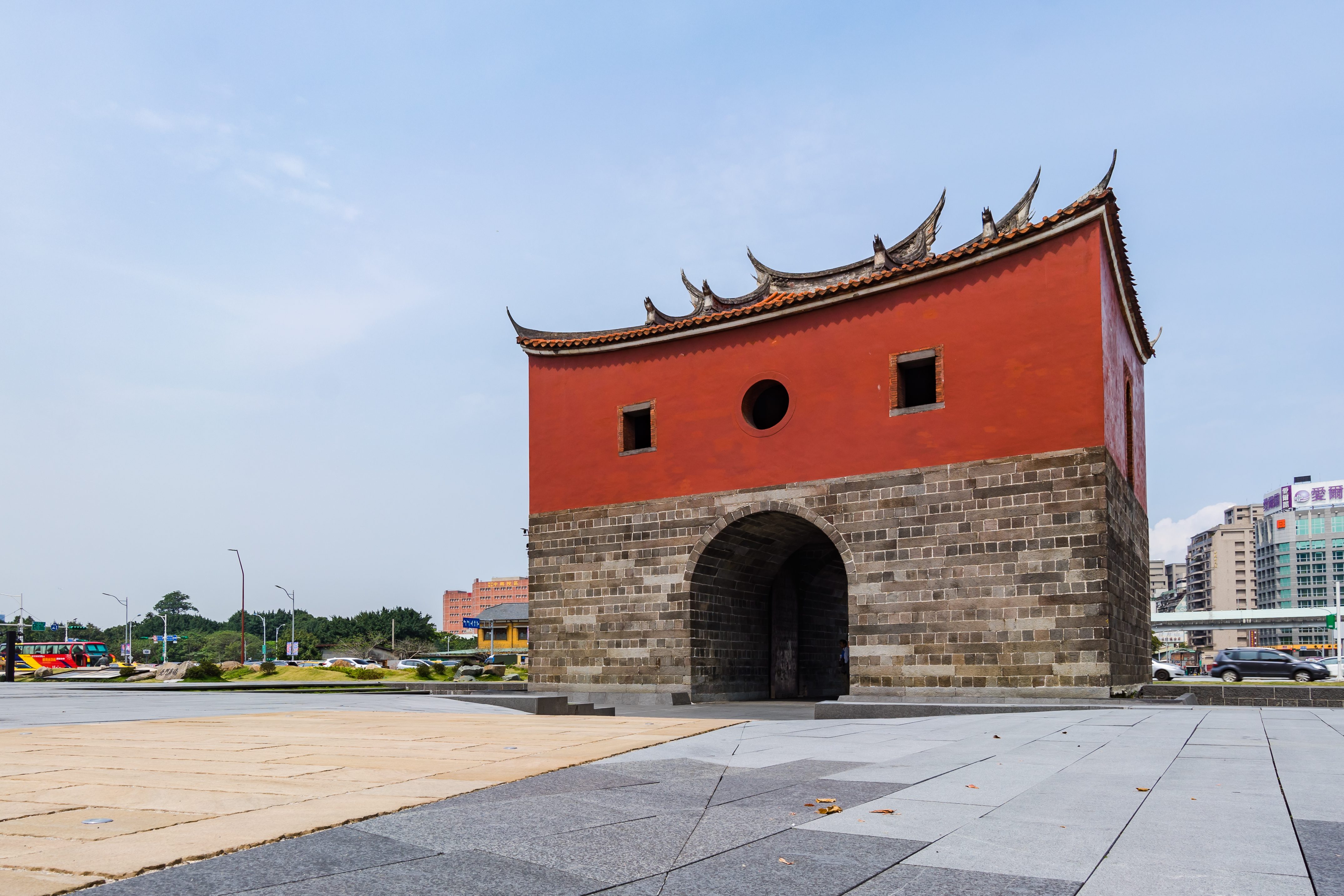 Cheng-En Gate (Beimen)